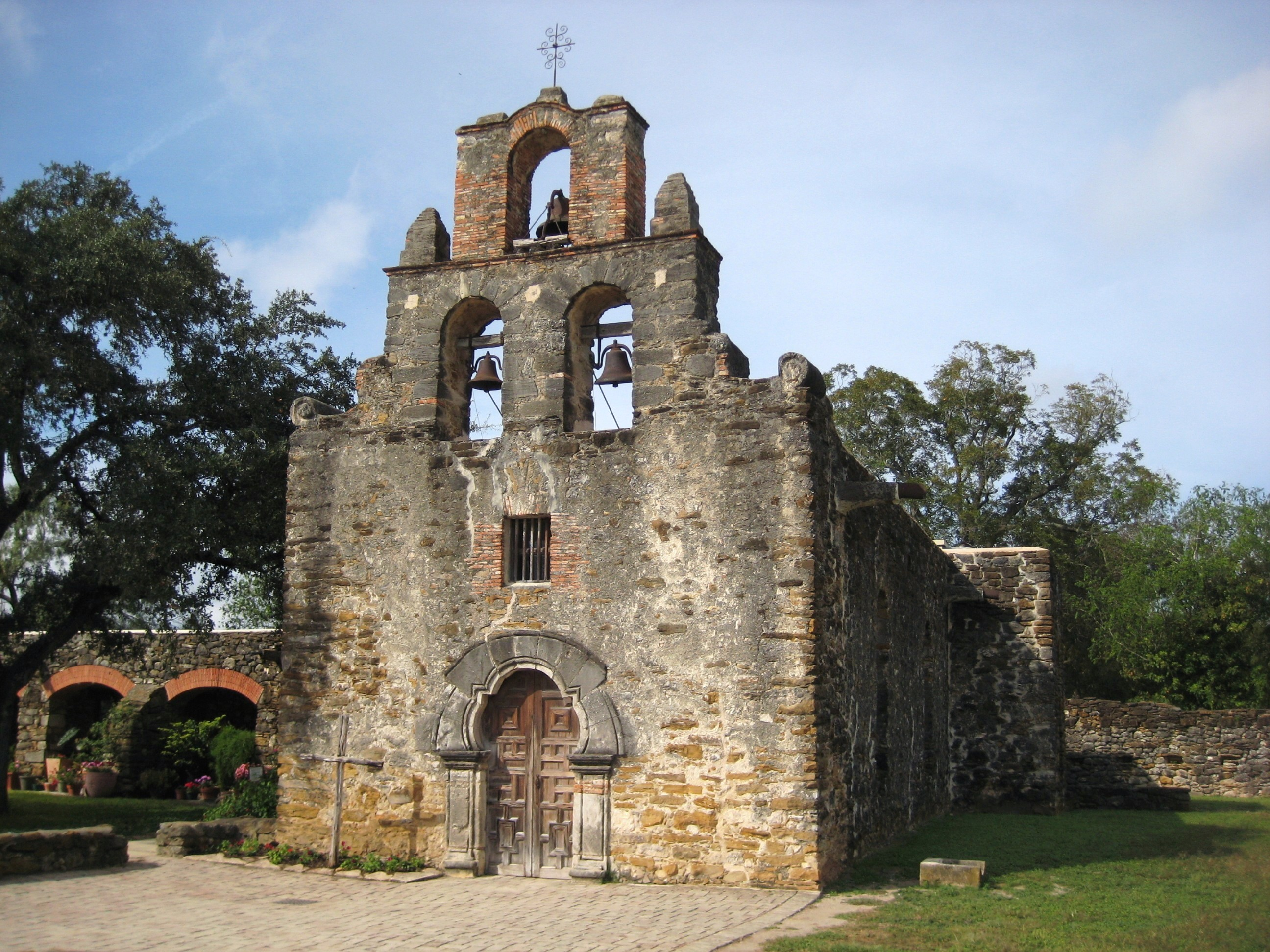 Mission San Francisco de la Espada chapel